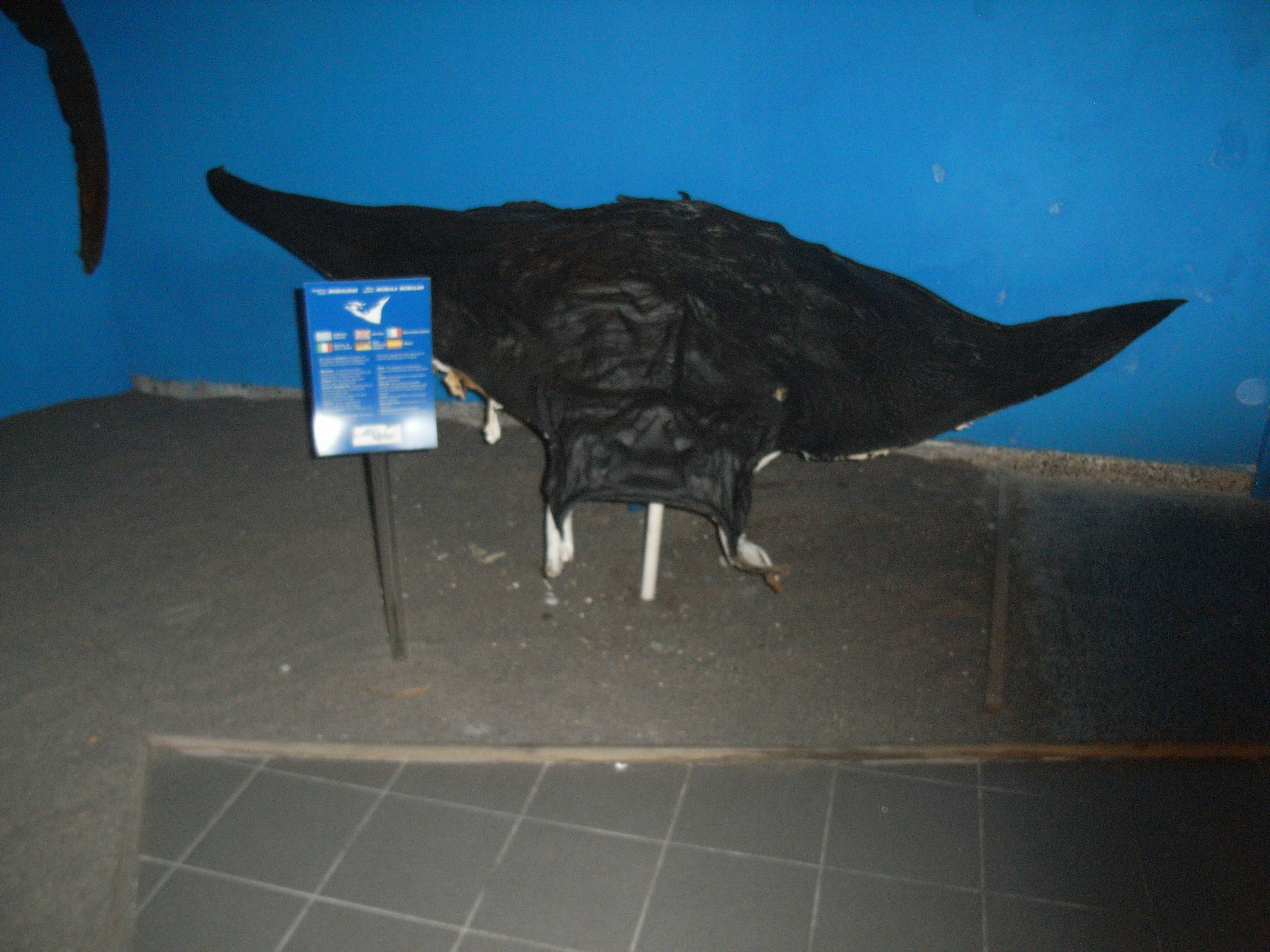 Mobula mobular in the Museum of the Rhodes Aquarium